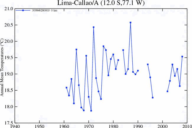 Climate graph of 1960 2009 air average temperaturas at city of El Callao, Peru